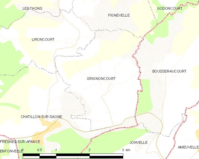 Map of French municipality Grignoncourt